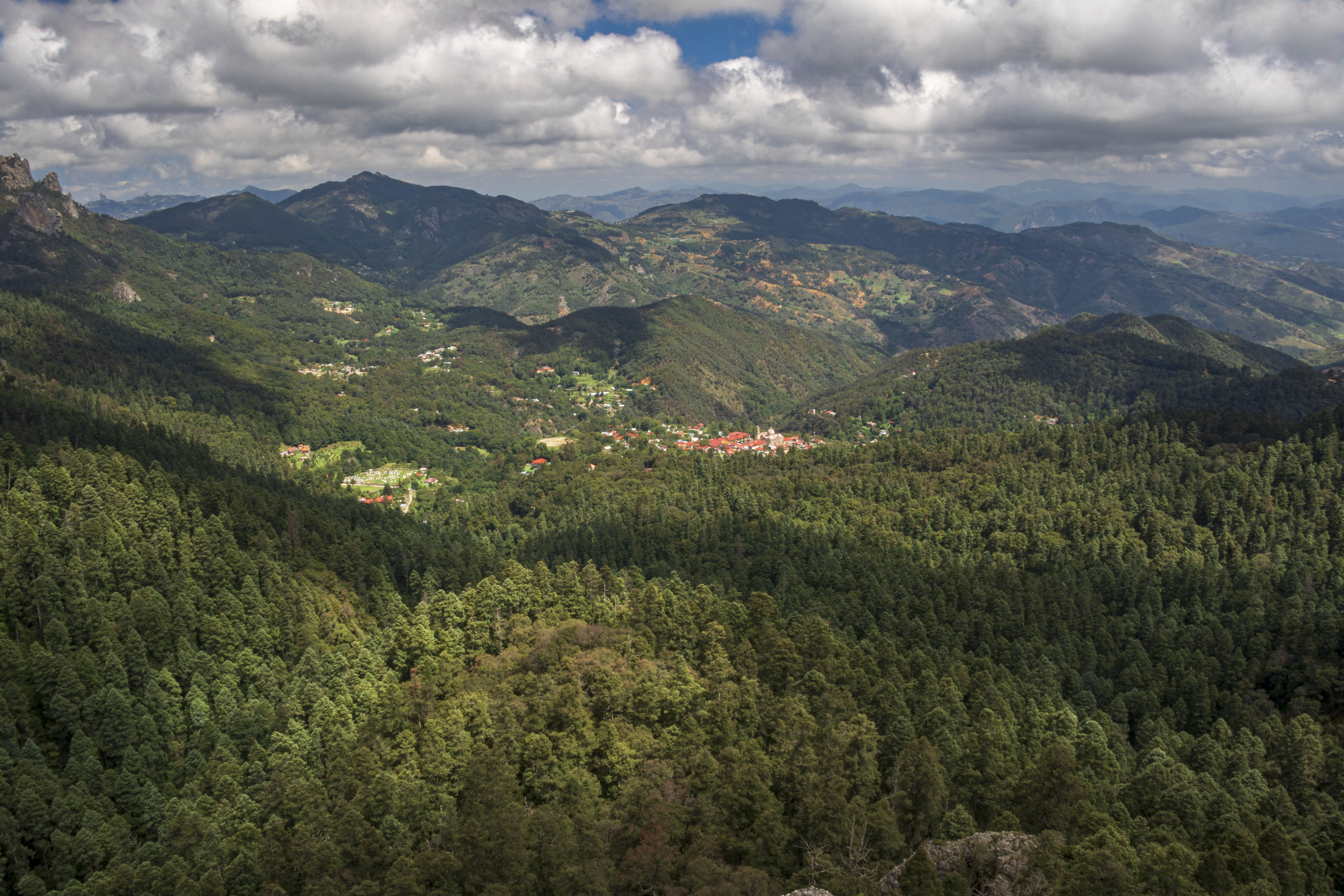 Parque nacional El Chico